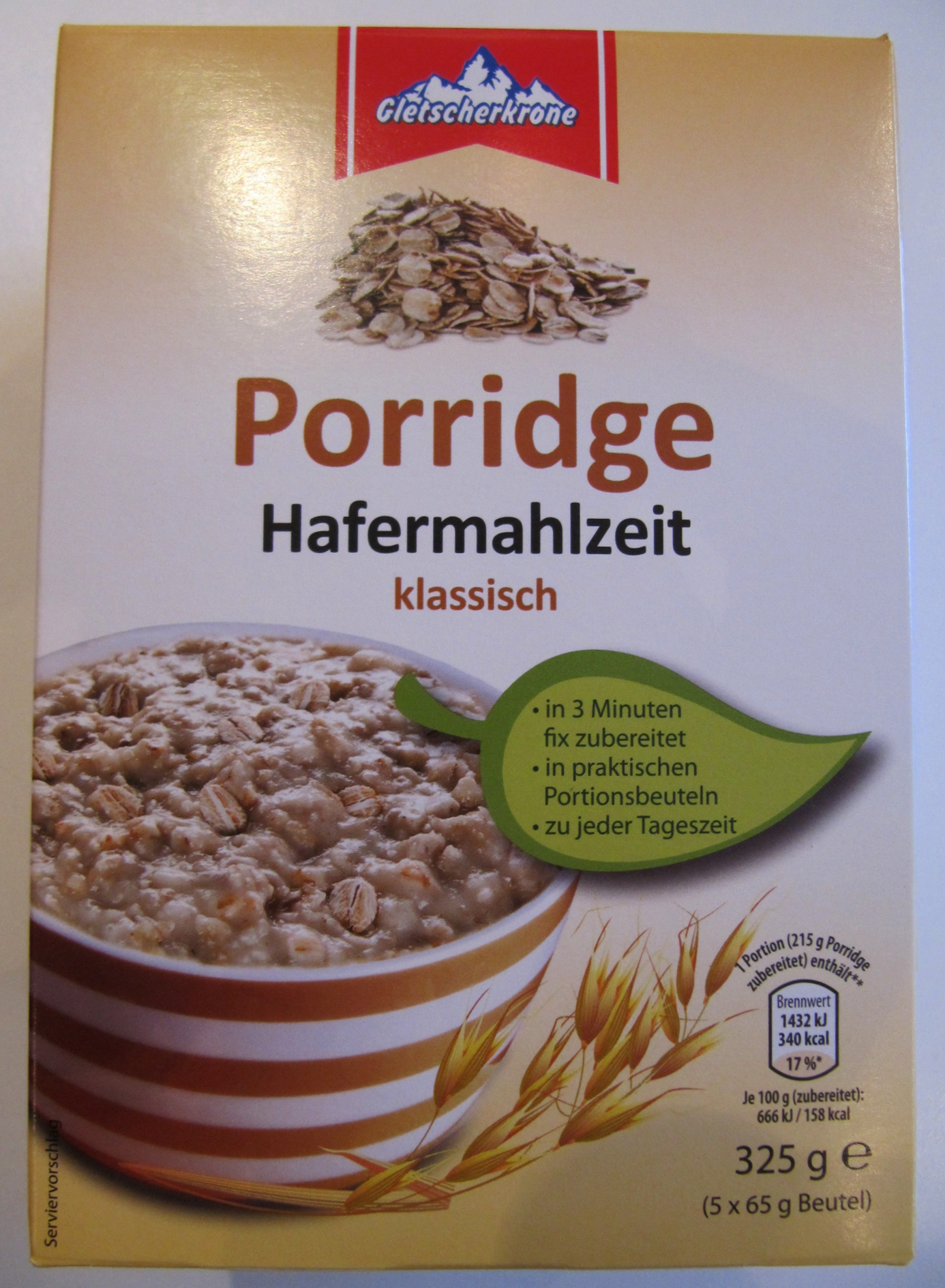 Porridge as sold at ALDI markets in Germany